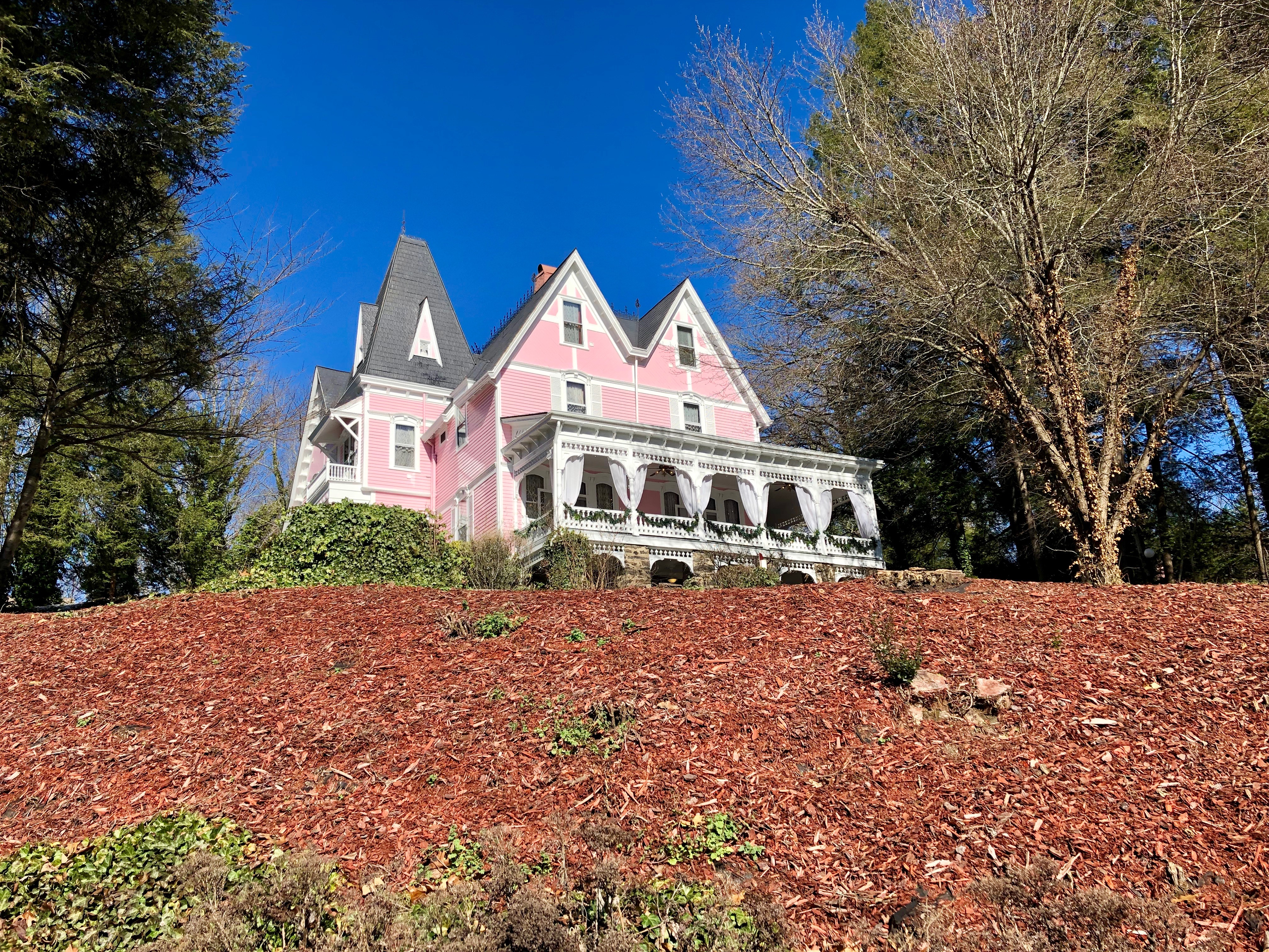 Also known as the Cedar Crest Inn Bed and Breakfast.